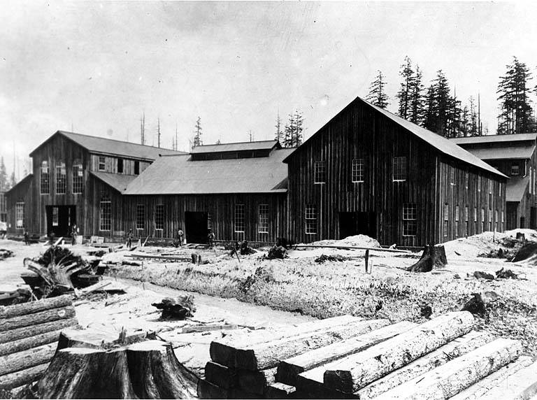 Caption on image: Kirkland Iron Works, Kirkland, Wash. On verso of image: Kirland Steel Mill Subjects (LCSH): Kirkland Iron Company (Kirkland, Wash.); Iron-works--Washington (State)--Kirkland; Steel industry and trade--Washington (State)--Kirkland